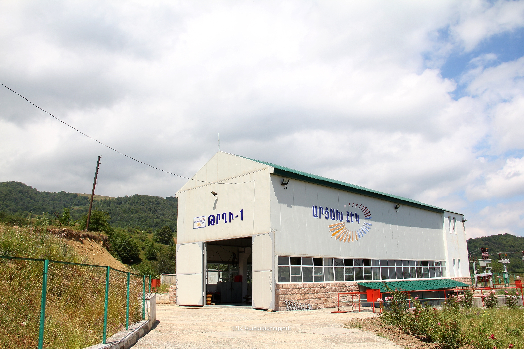 Trghi-3 hydro energy station building of "Artsakh HEK"